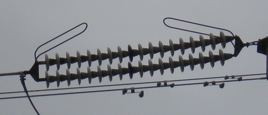 Arcing horns on each side of a tension-type high-voltage insulator string, Stockbridge dampers on conductors